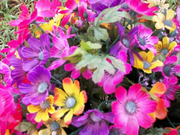 Charlotte, North Carolina